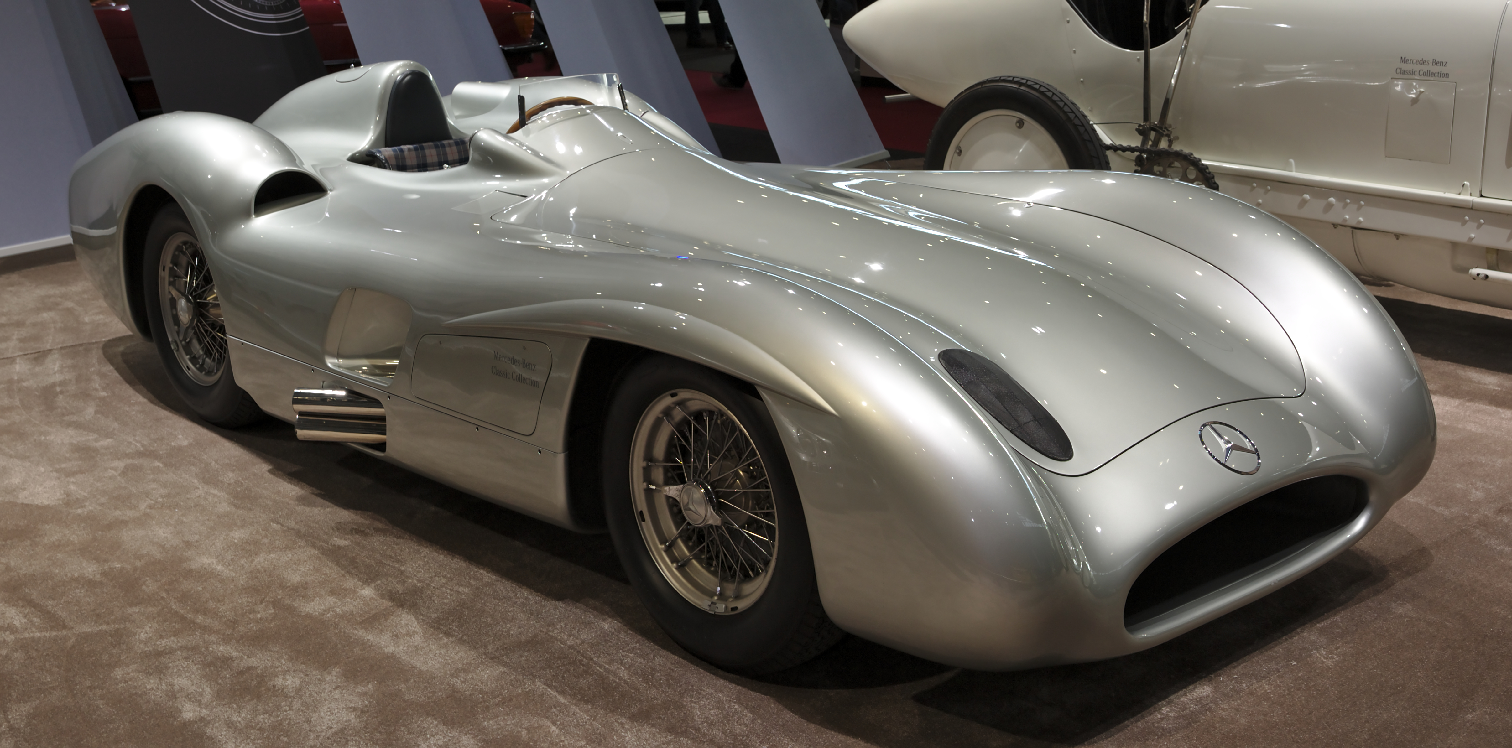 Mercedes-Benz Formel-1-Rennwagen W 196 R at Retro Classics 2019